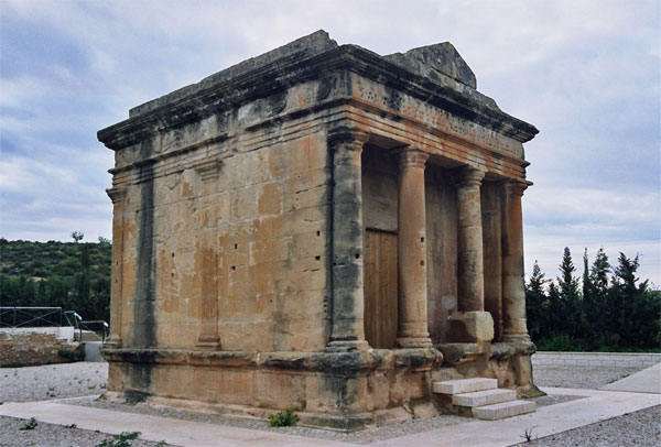 Favara mausoleum. Favara, Saragossa